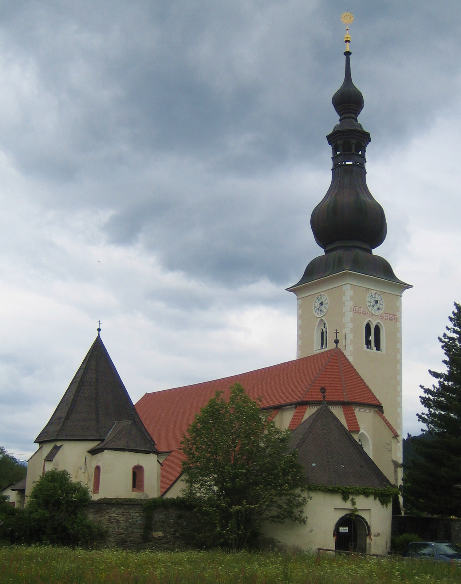 Parish church in Weitensfeld, Carinthia, Austria.